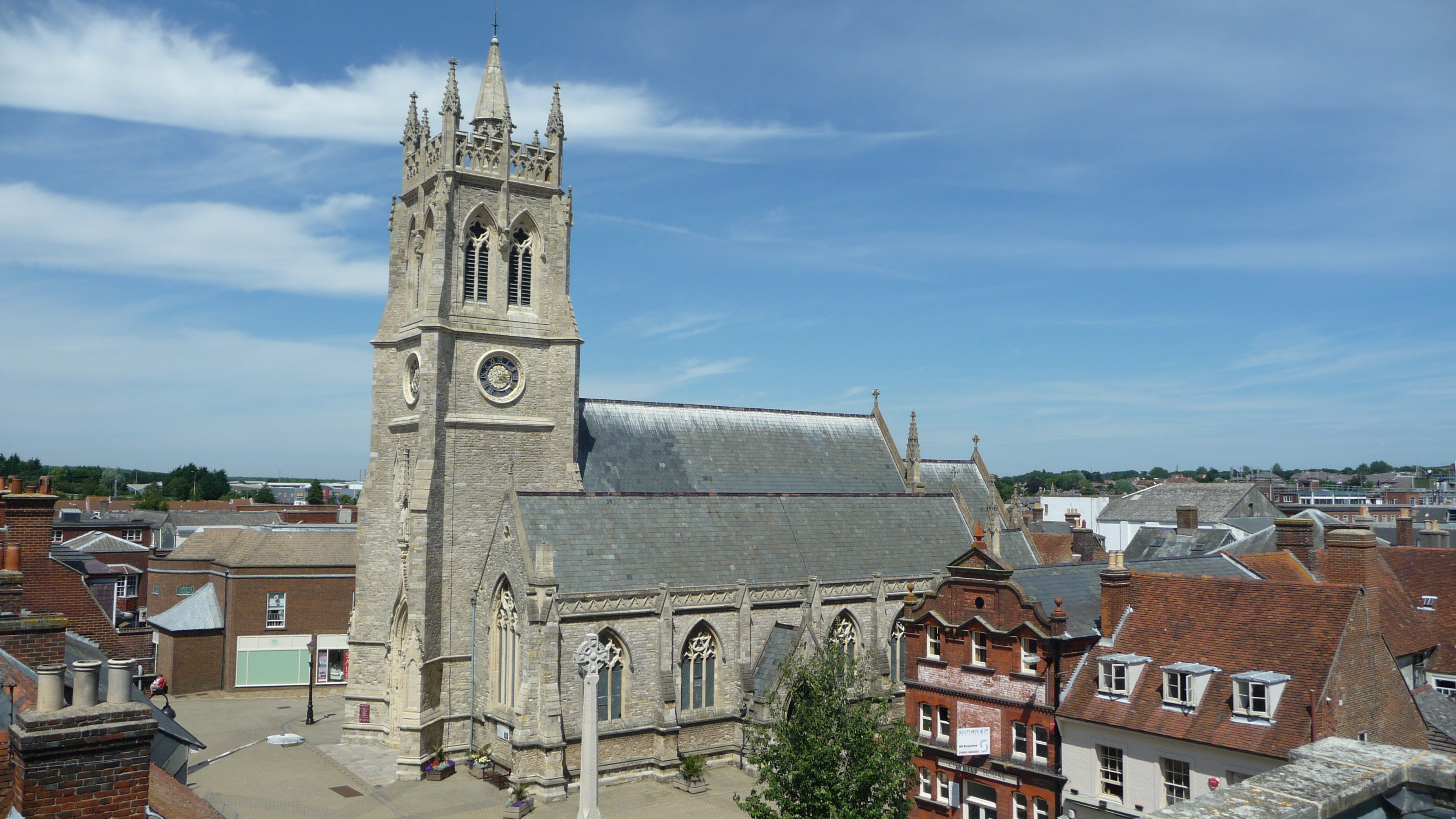 St Thomas' Church, Newport, Isle of Wight, seen from the top of the multi-storey car park above Somerfield. St Thomas' Church is one of only two churches in the country that doesn't have its own grounds. This photo shows the traditional feel of Newport, being a market town. This contrasts with what someone decided would be a good idea to build in South Street - File:Newport South Street.JPG.